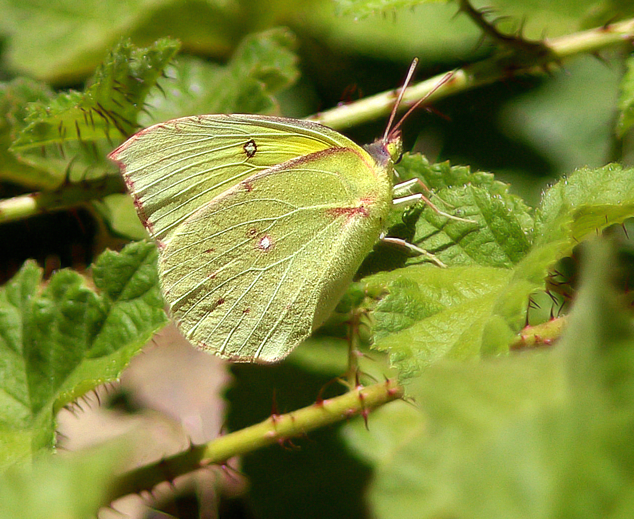 Butterflies of North America